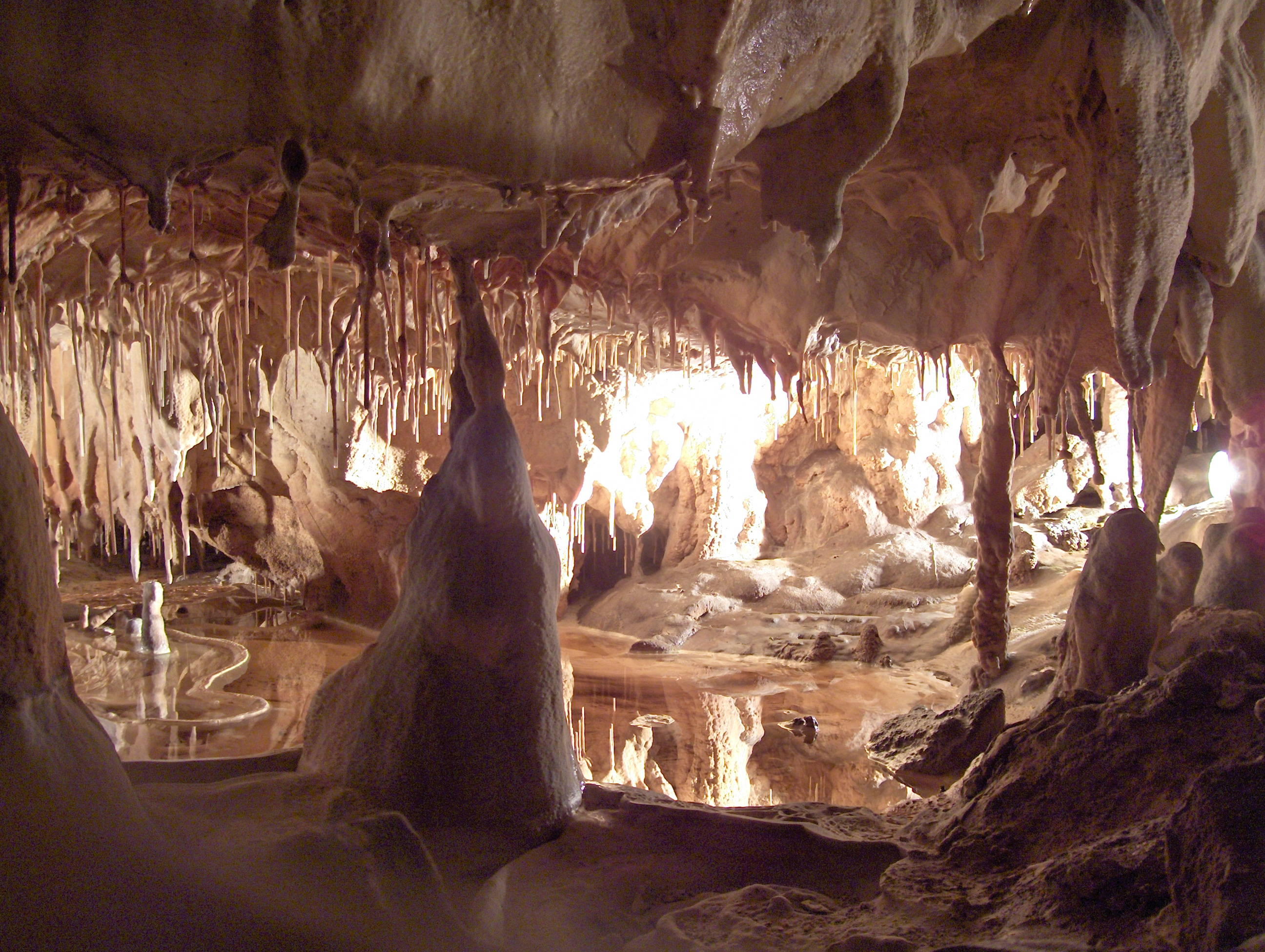 interior of the caves of Thouzon